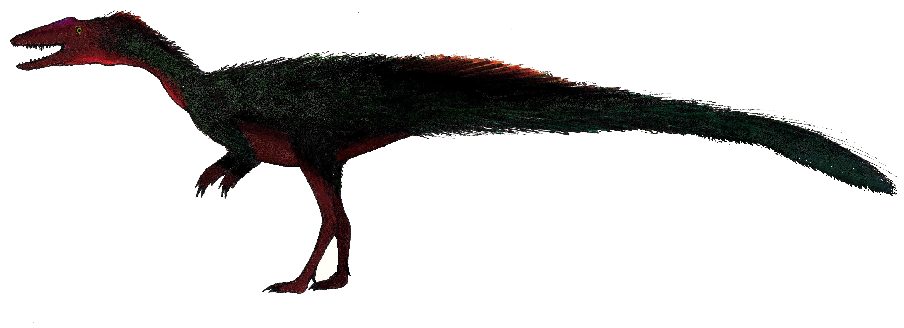 Pterospondylus life restoration